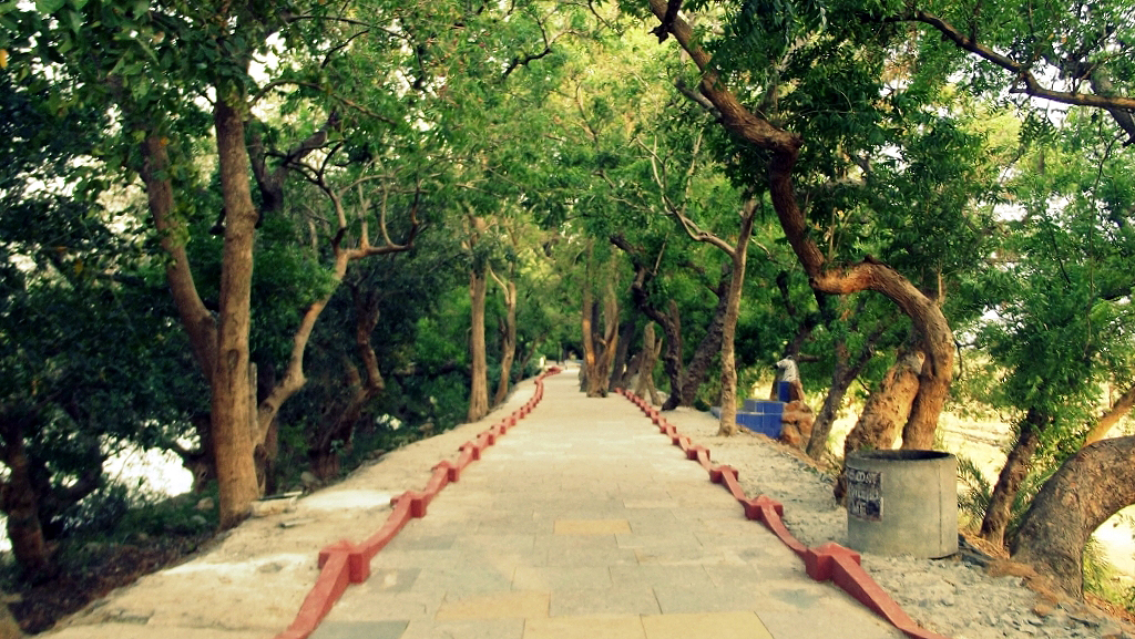 The pathway in Vedanthangal Bird Sanctuary.